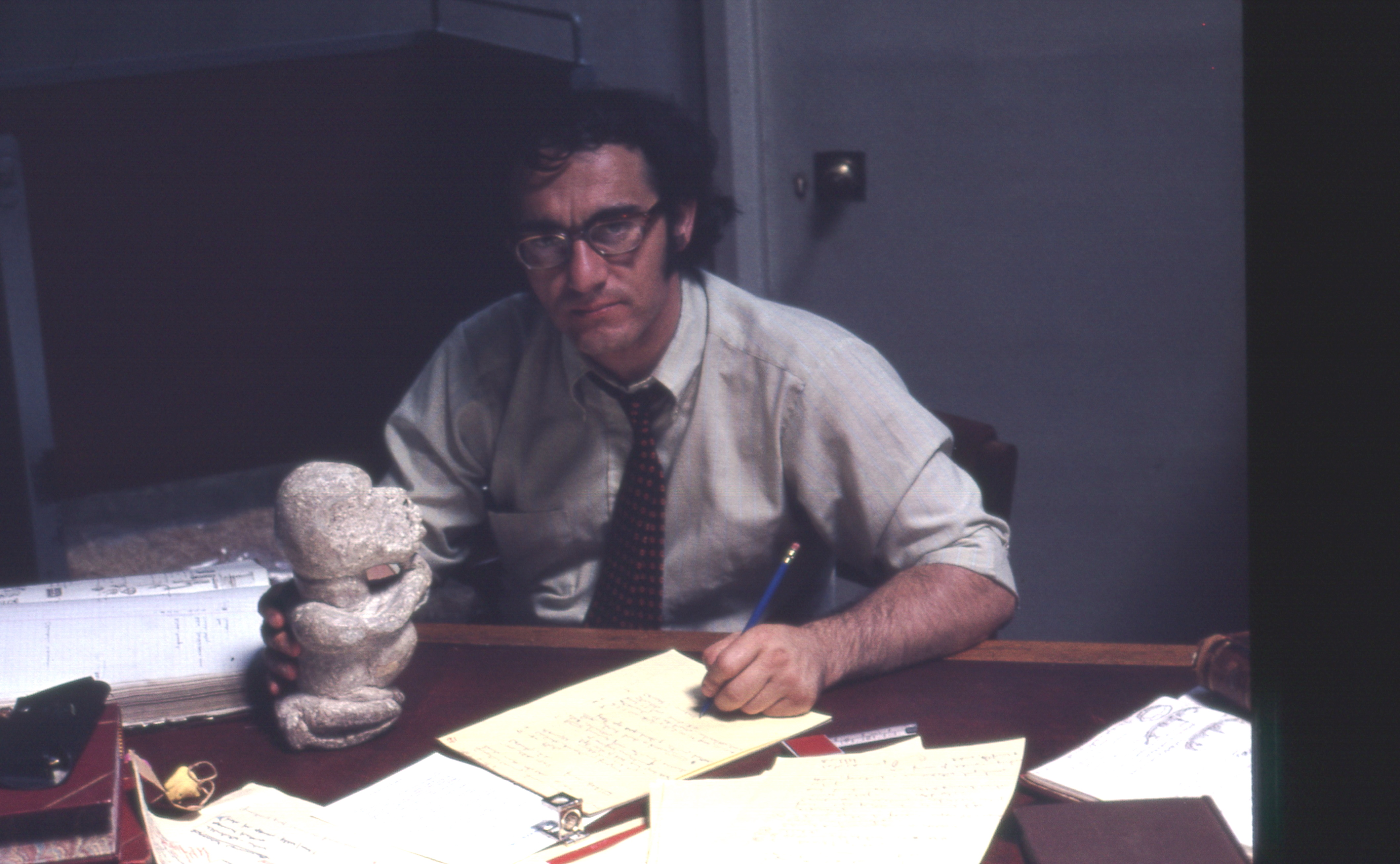 Photo taken in the British Museum, London, in the summer of 1970